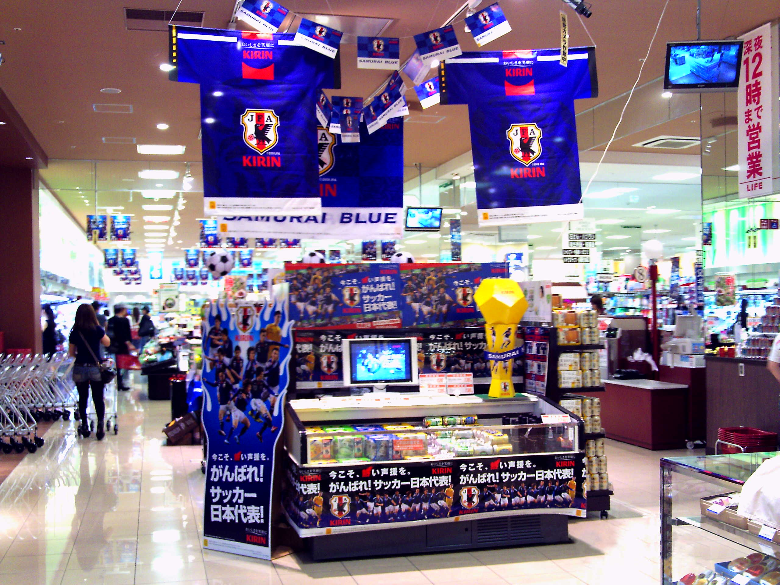 2010 Japan-Soccer Fever at Namba